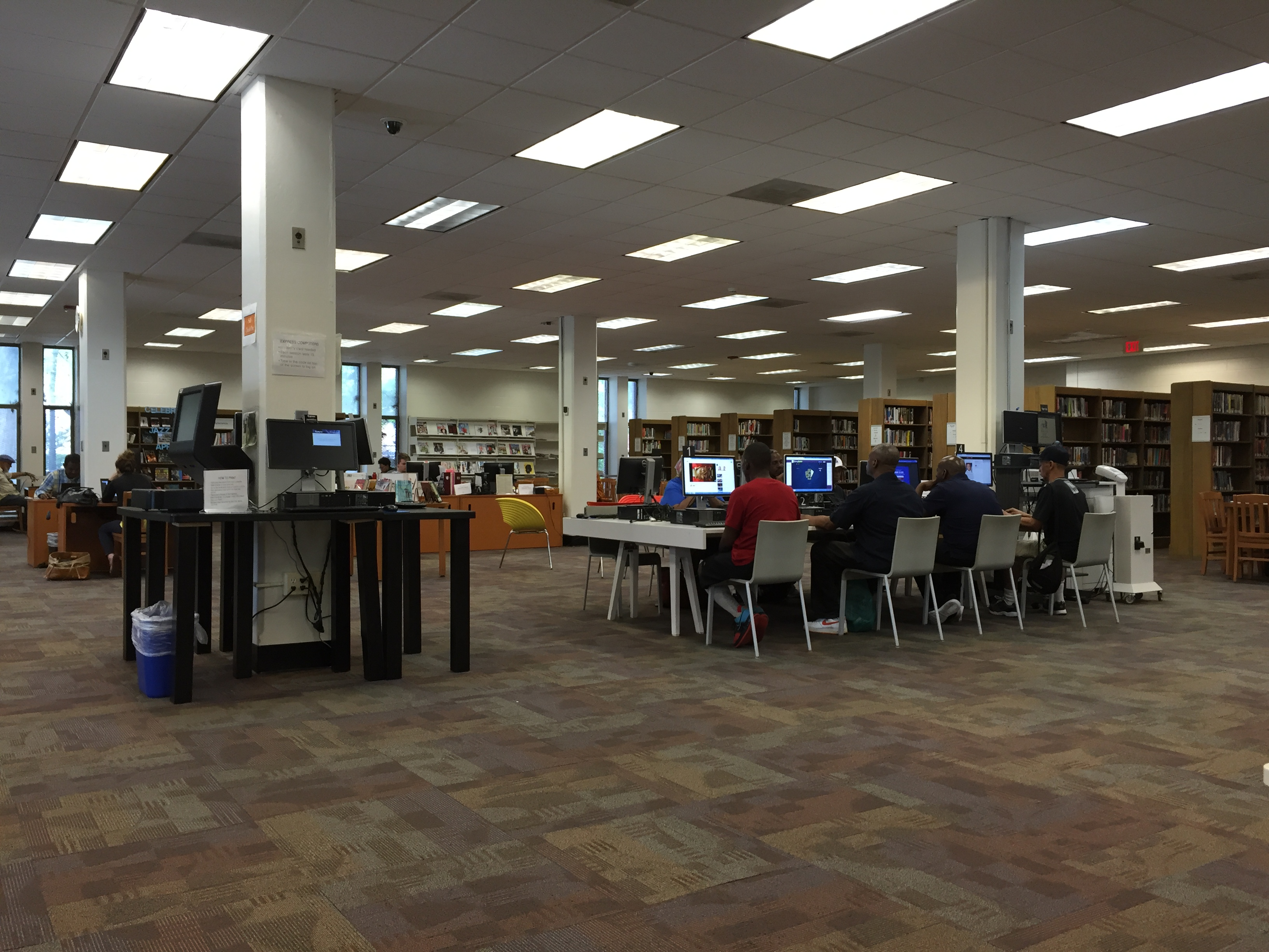 Interior of the District of Columbia Public Library Southwest Library in 2017